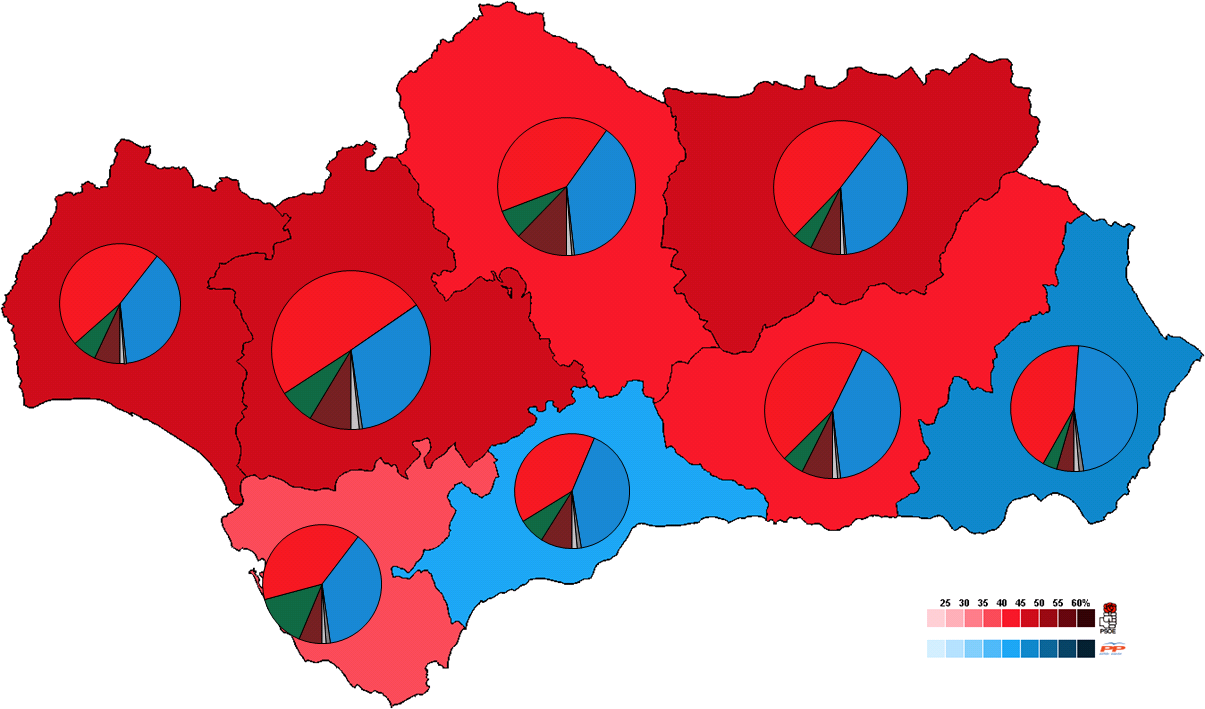 Provincial results for the Andalusian parliamentary election, 2000.